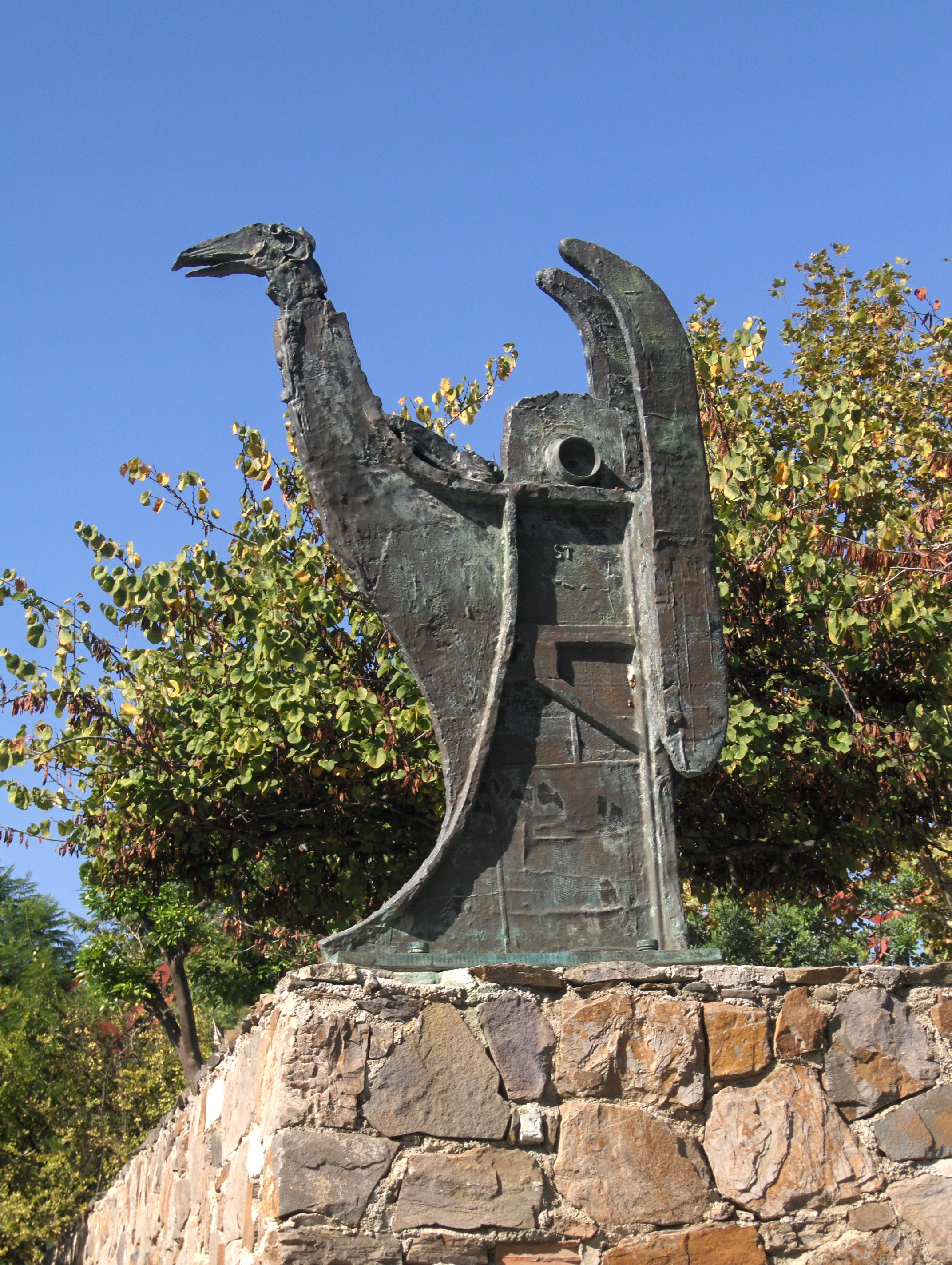 Parque del Oeste, Málaga